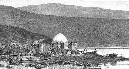 View of observatory established on Campbell Island, New Zealand, in 1874 by the French Transit of Venus expedition there.